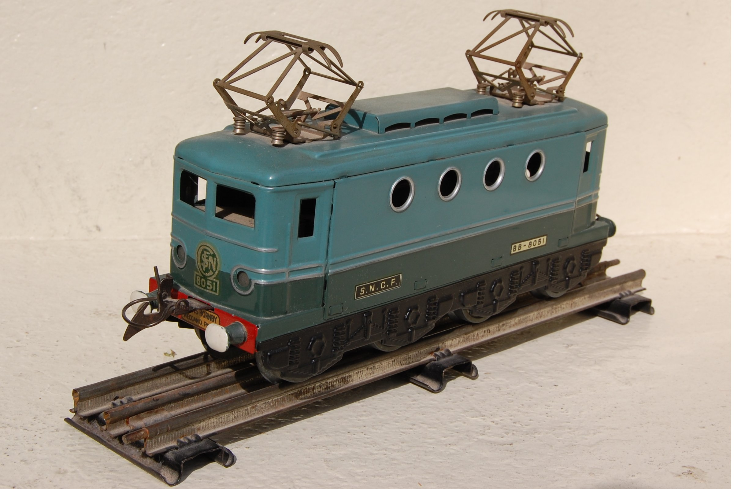 O scale SNCF BB 8051 by Hornby. 1950's.